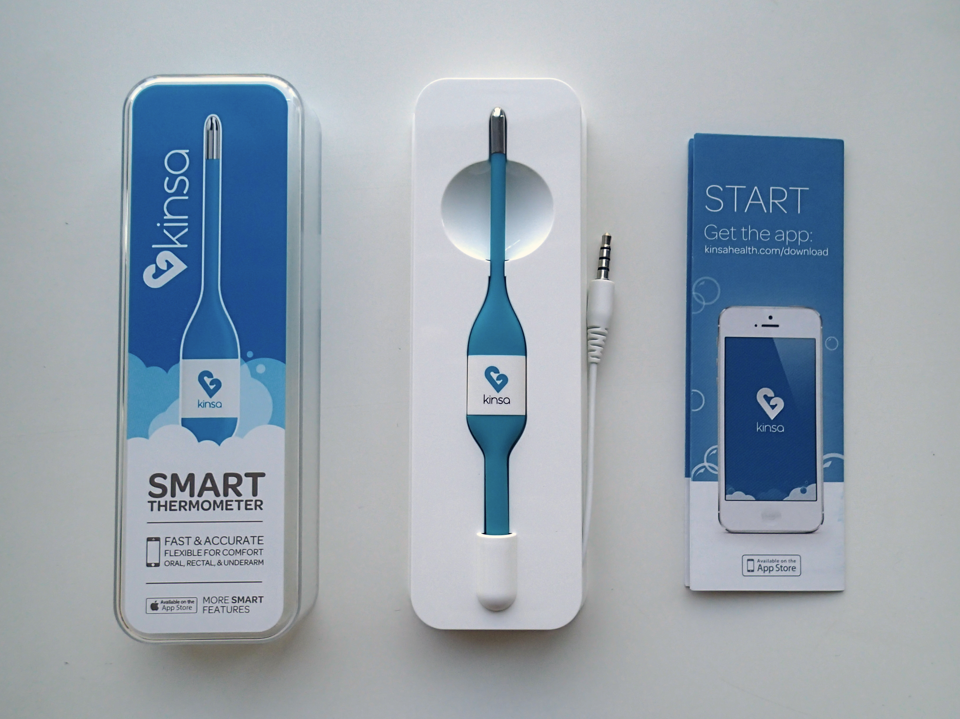 There're Kinsa the thermometer, extension cable, setup adapter, and documents.